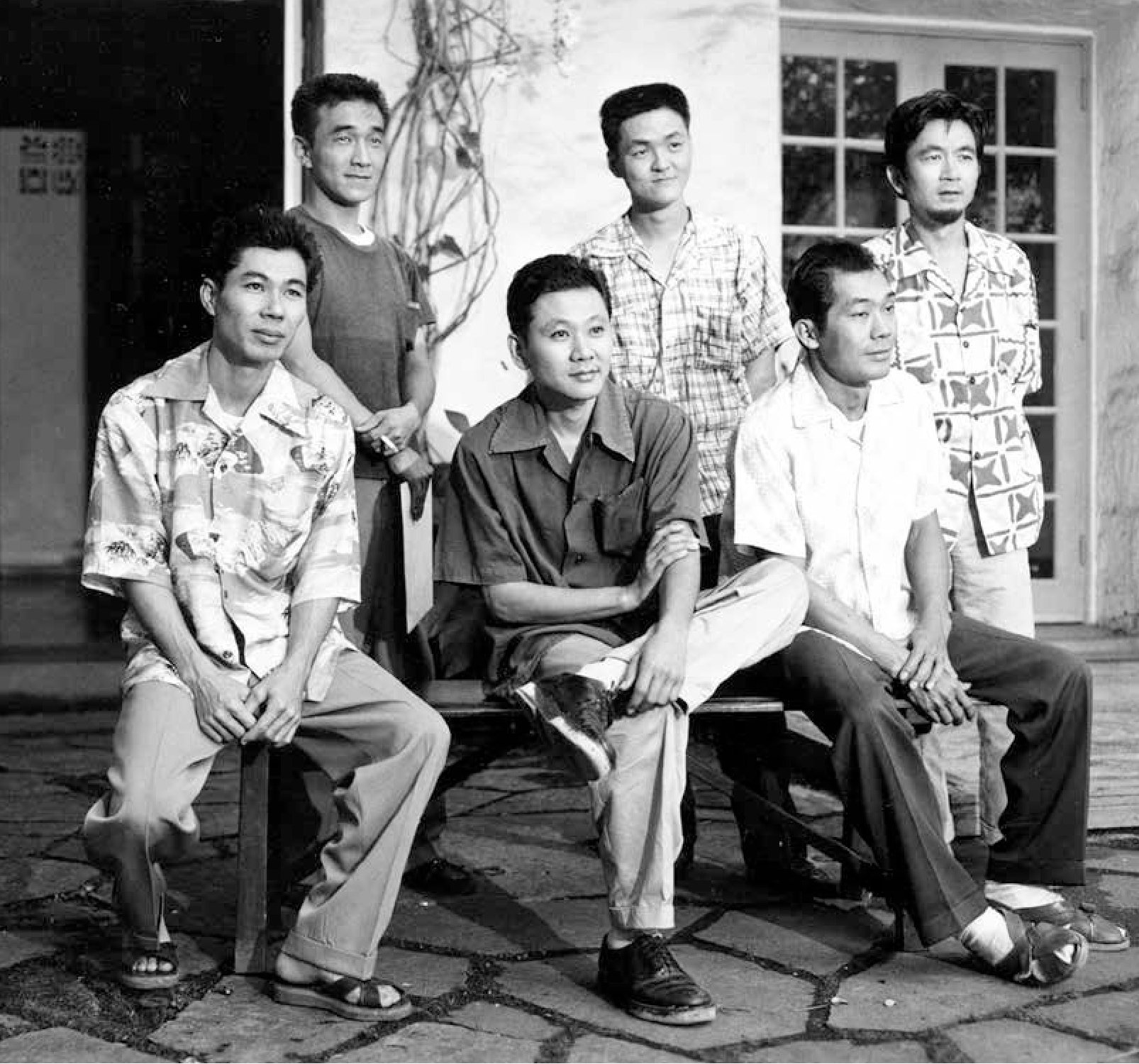 The Metcalf Chateau group at the Honolulu Museum of Art in 1954. Pictured from left- Tetsuo 'Bob' Ochikubo, Tadashi Sato, Satoru Abe, Edmund Chung, Jerry Okimoto, and Bumpei Akaji. Raymond M. Sato, photographer.